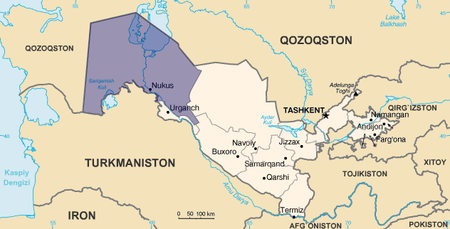 Template:Tasvir Category:Xaritalar: Oʻzbekiston